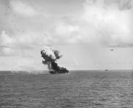 A Japanese Mitsubishi A6M kamikaze plane hits the U.S. Navy escort carrier USS Suwannee (CVE-27) in the waters off the Philippines on 26 October 1944. Suwannee had already been hit by a kamikaze on 25 October 1944. Just after noon on 26 October, another group of kamikazes attacked. A Mitsubishi A6M crashed into Suwannee's flight deck at 1240 hrs and careened into a Grumman TBM Avenger torpedo bomber which had just been recovered. The two planes erupted upon contact as did nine other planes on her flight deck. The resulting fire burned for several hours, but was finally brought under control. The casualties for 25–26 October were 107 dead and 160 wounded.The photo was taken from the USS Sangamon (CVE-26).